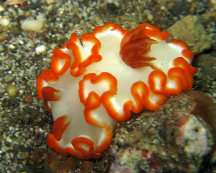 Ardeadoris averni (Rudman, 1985) (synonym: Glossodoris averni) from Lembeh